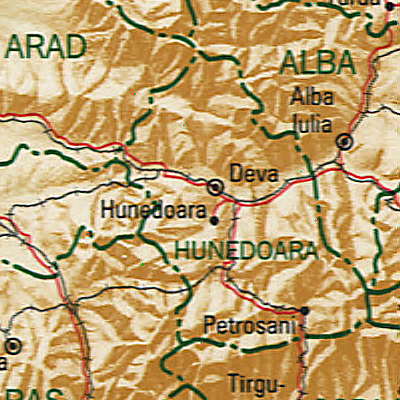 Map of Hunedoara County, Romania.